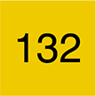 Luxembourg road sign diagram